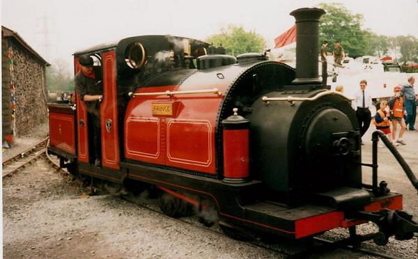 George England locomotive Prince on the Ffestiniog Railway